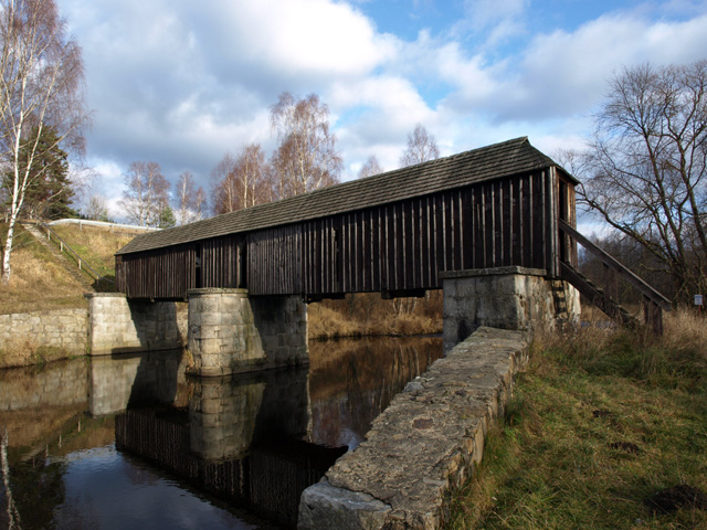 Beam Bridge over the Vltava river